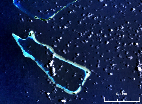 Neoch (Kuop) Atoll, Chuuk State, Micronesia, Pacific Ocean